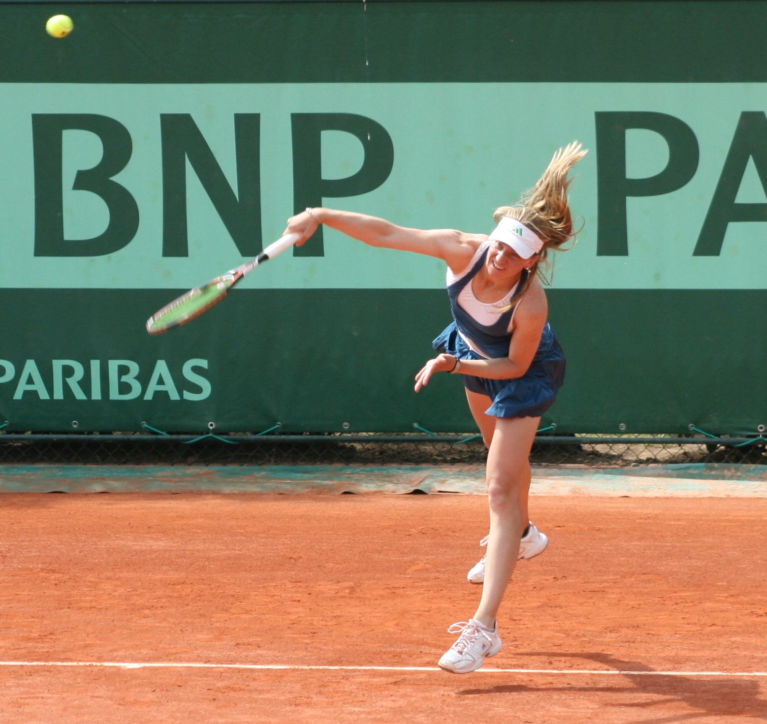 Tennis player Mona Barthel playing French Open 2011